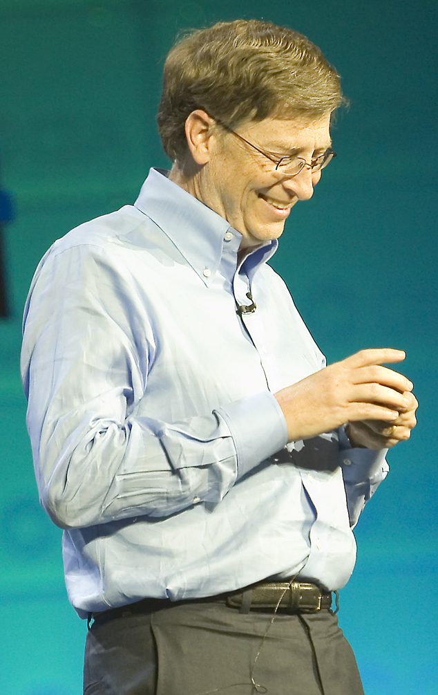 Bill Gates is the pre-show keynote speaker for the CES (Consumer Electronics Show), in Las Vegas, Nevada. He unveiled the latest plans for Microsoft Corporation. For the complete transcript, go to